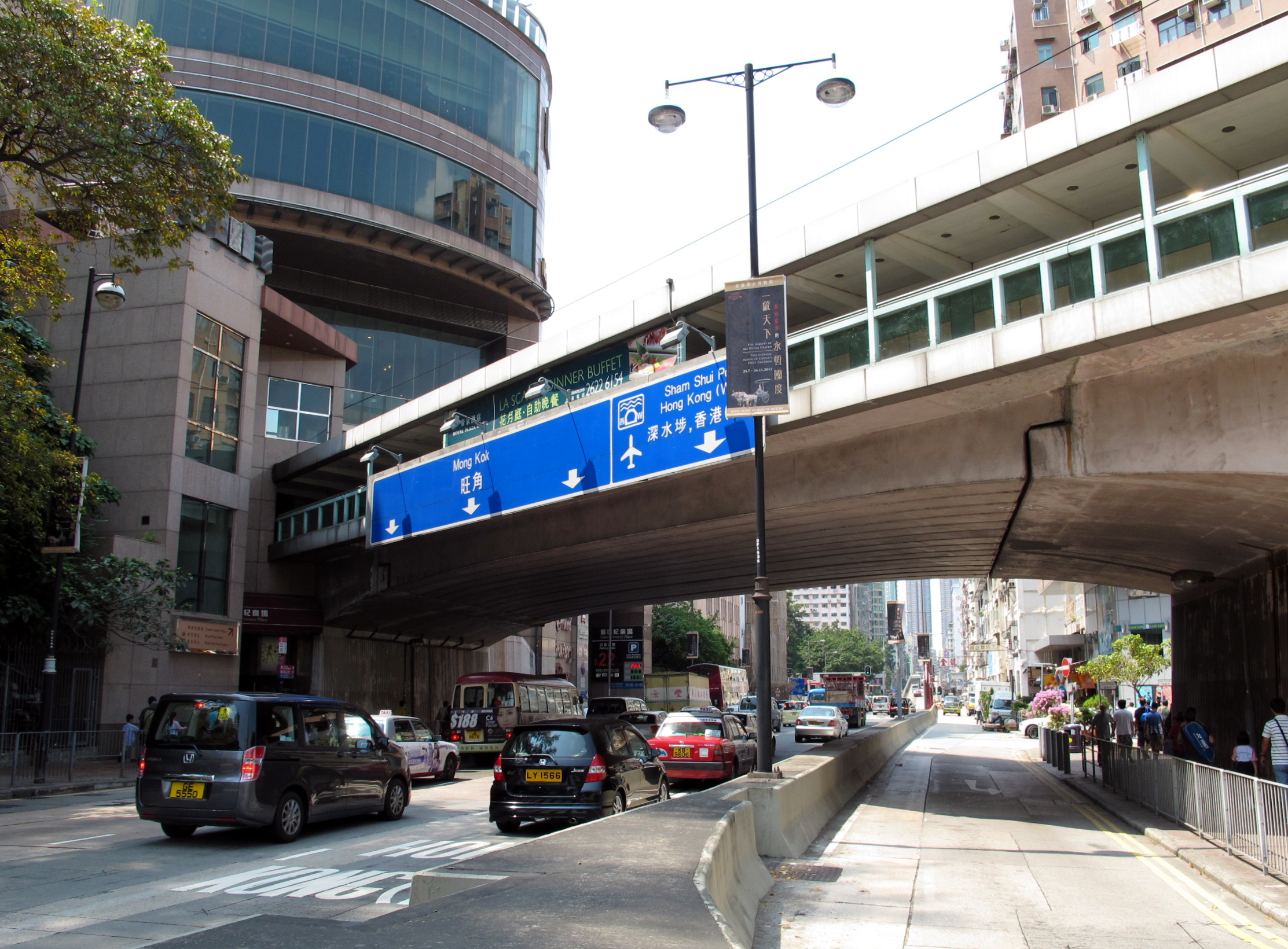 Prince Edward Road West GCP Bridge_